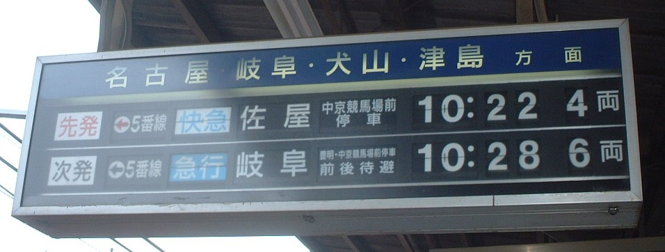 Nagoya Railroad Nagoya Main Line and Mikawa Line Chiryū Station Information board of Split-flap display.